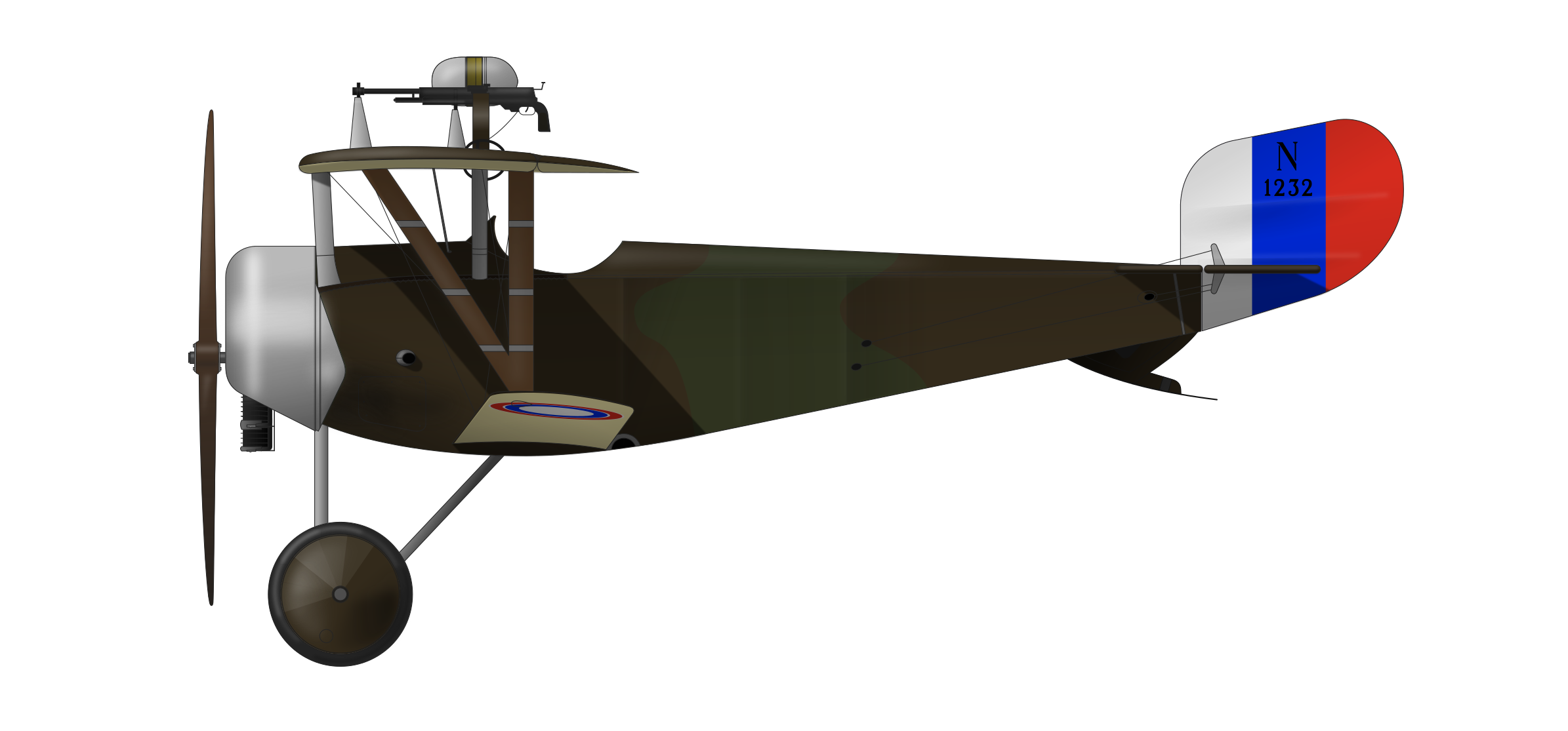 Praporshchik Vasili Yanchenko's Nieuport 11 (N1232). 7th AOI (Aviatsionniy Otryad Istrebitelei), spring 1917. The source for the color scheme is Harry Dempsey's drawing in Viktor Kulikov, Russian Aces of World War 1, Osprey Publishing 2013, p. 37.